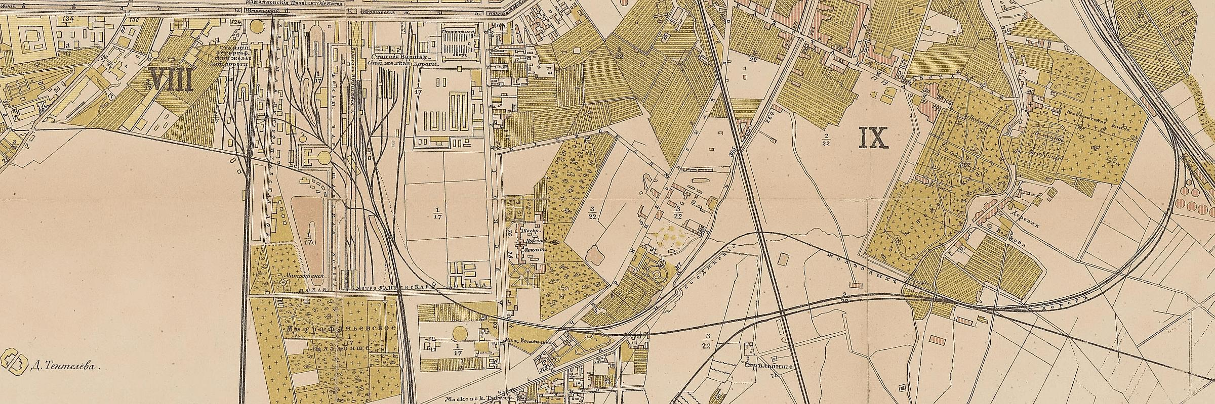 This is the detail of the map of Petersburg published in 1884 (Справочный план С.Петербурга 1884 года Мусницкого), showing the layout of the central section of the St.Petersburg railway network